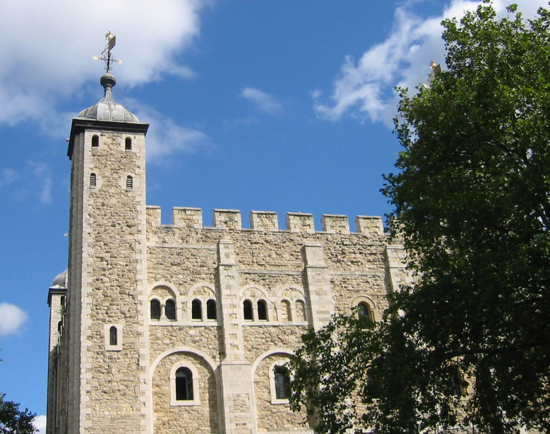 White Tower, Tower of London